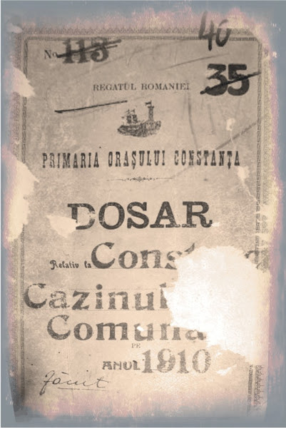 Cover of Municipal File on the Study of Cazinul Comunal